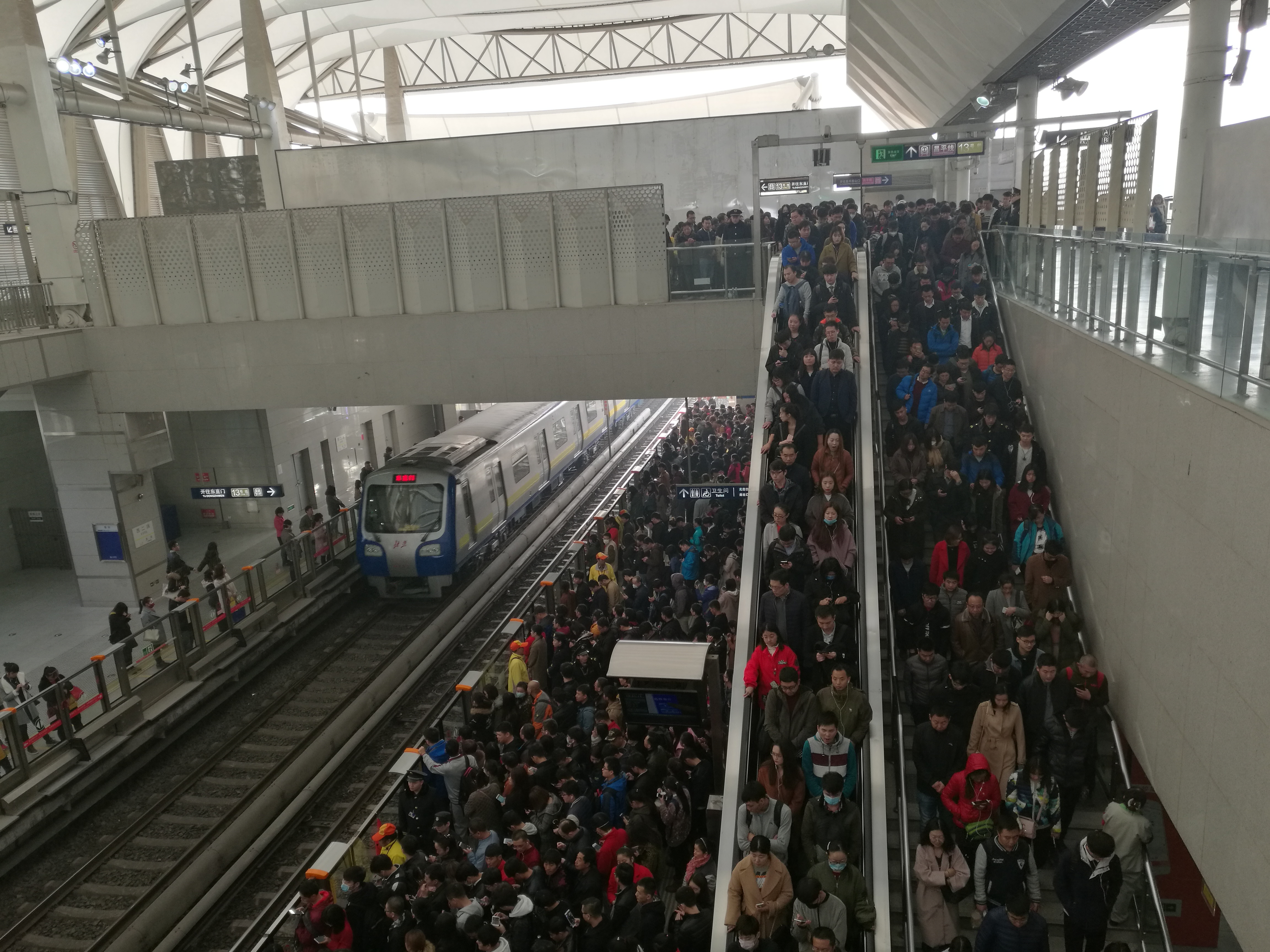 Tuesday morning rush at Xi'erqi Station, southbound